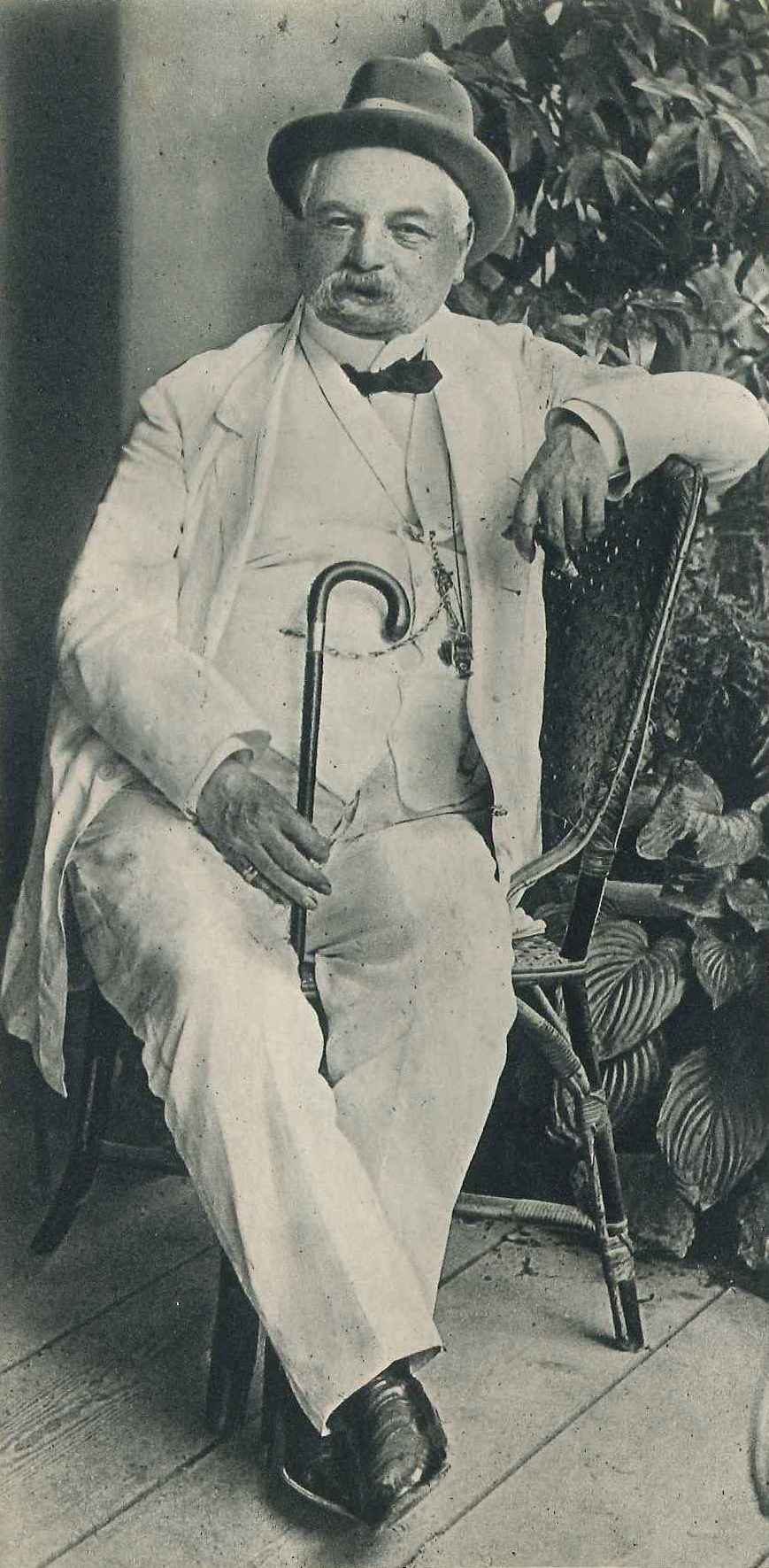 Guido Baccelli in Montecatini's Spa, from: L'illustrazione del medico, marzo 1938, n.46, p. 2